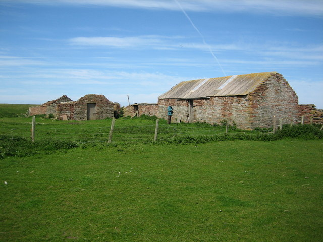 Hamar Farmhouse (south & east sides), Faray In 1881 Faray had nine named houses including Hamar (sometimes spelled Hammar). The island's population was 72 people at that time of which 8 lived at Hamar including the island's school master and his wife and infant son. Faray has been uninhabited since shortly after World War II. Hamar was reroofed a few years ago to provide shelter for newborn lambs.